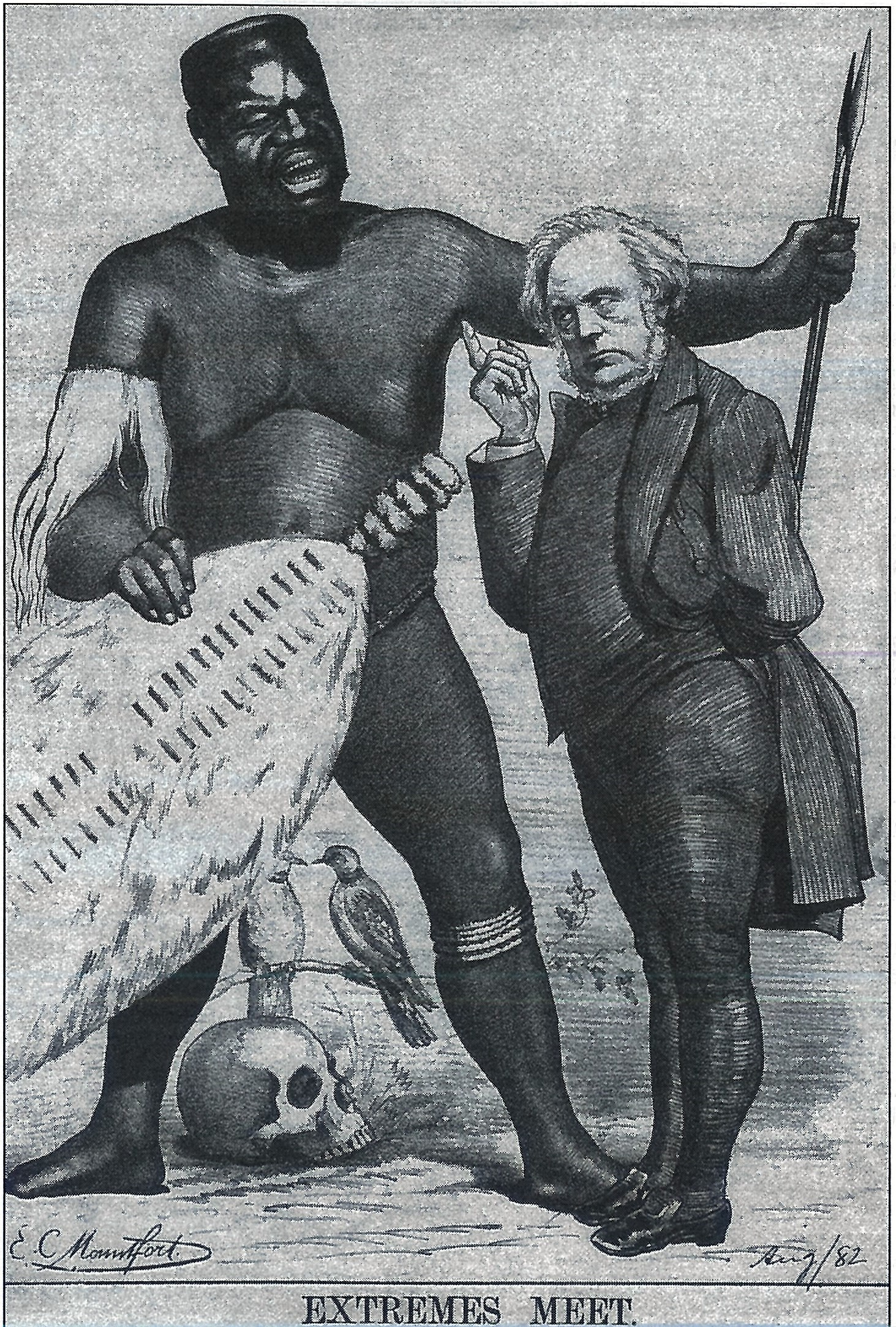 "Extremes meet". Cartoon depicting the anti-imperialist John Bright (1811-89) lecturing the Zulu king Cetewayo [Cetshwayo kaMpande] (c.1826-1884). By E. C. Mountford; published in 'The Dart' (4 Aug 1882).